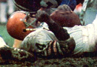 Cleveland Browns running back Leroy Kelly completing a running play against the Baltimore Colts during the 1971 AFC Divisional Playoffs Game.